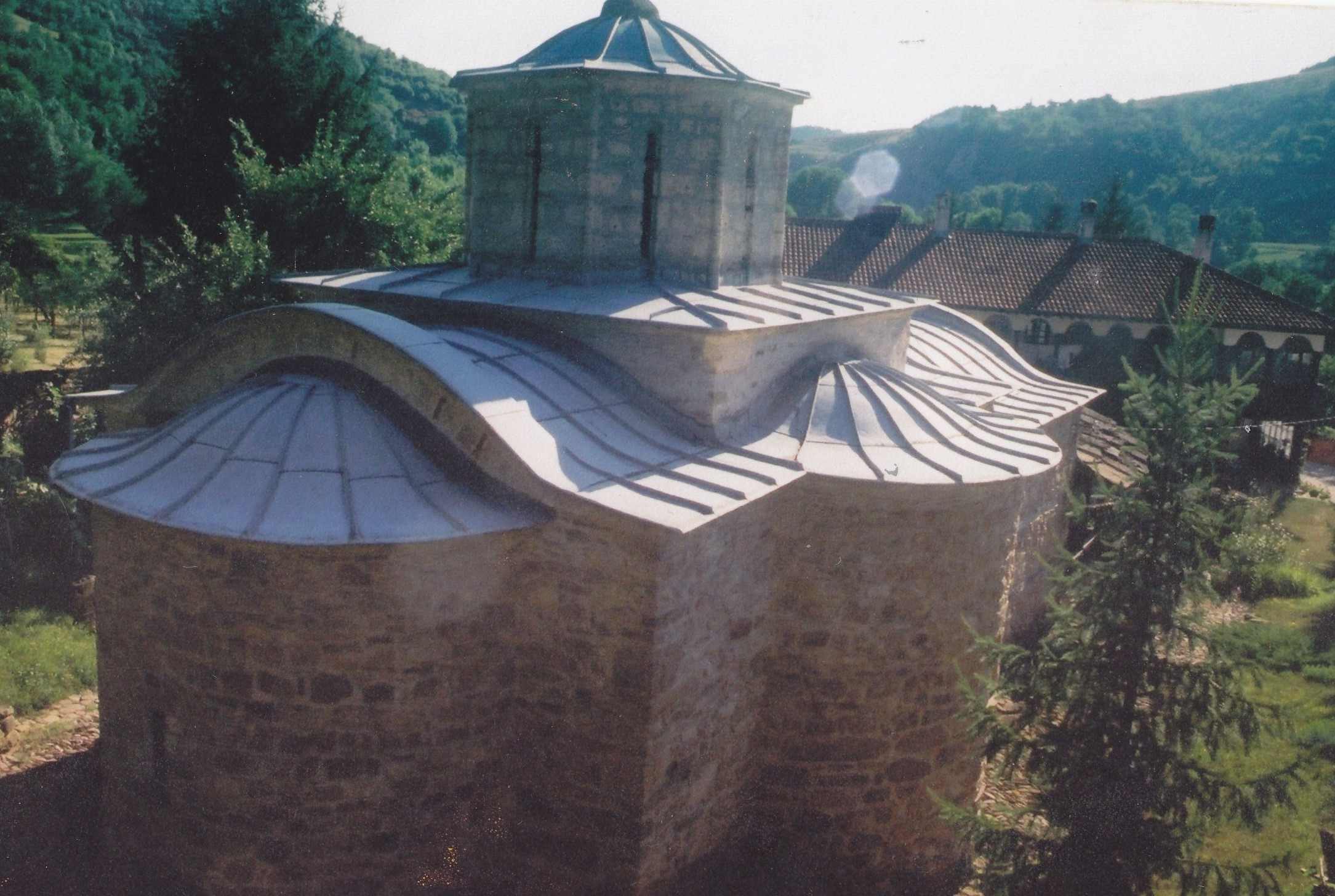 Monastery Gorčince in Babušnica